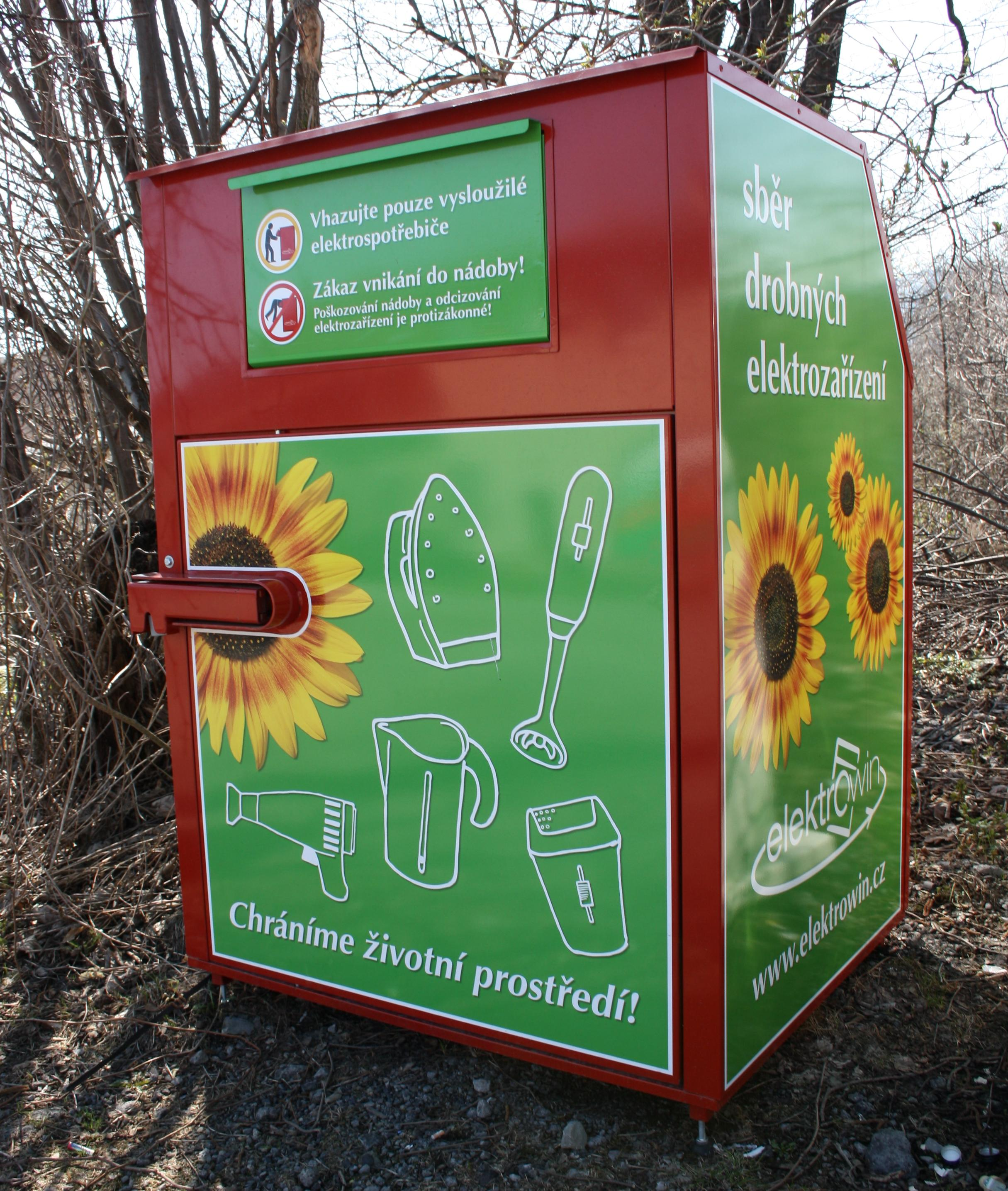 Bystřice, Frýdek-Místek District, Moravian-Silesian Region, Czech Republic